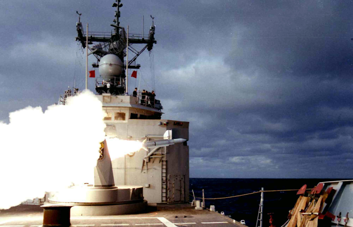 A Standard Missile roars off the forward launcher of the USS Thach (FFG 43) heading toward an incoming target drone during a missile test exercise in the South China Sea on Jan. 9, 1996. The Standard Missile used on the Oliver Hazard Perry Class Frigate is a SM-1 MR (medium range) surface-to-air or surface-to-surface missile that can be used against aircraft, ships and other missiles.